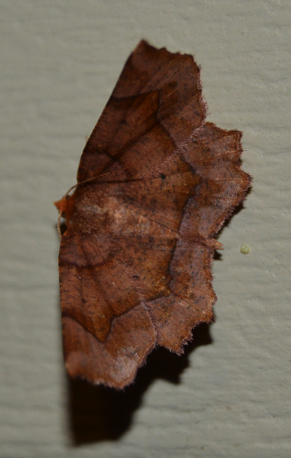 Metarranthis homuraria found in Chattanooga, TN